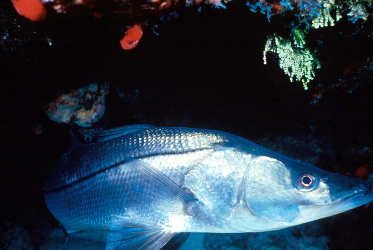 The snook (Centropomus undecimalis) is popular in the recreational fishing industry of the Florida Keys. This fish is usually found in the Bay and around the mangroves of the Keys, but if you are lucky you just might spot one out on the reef.